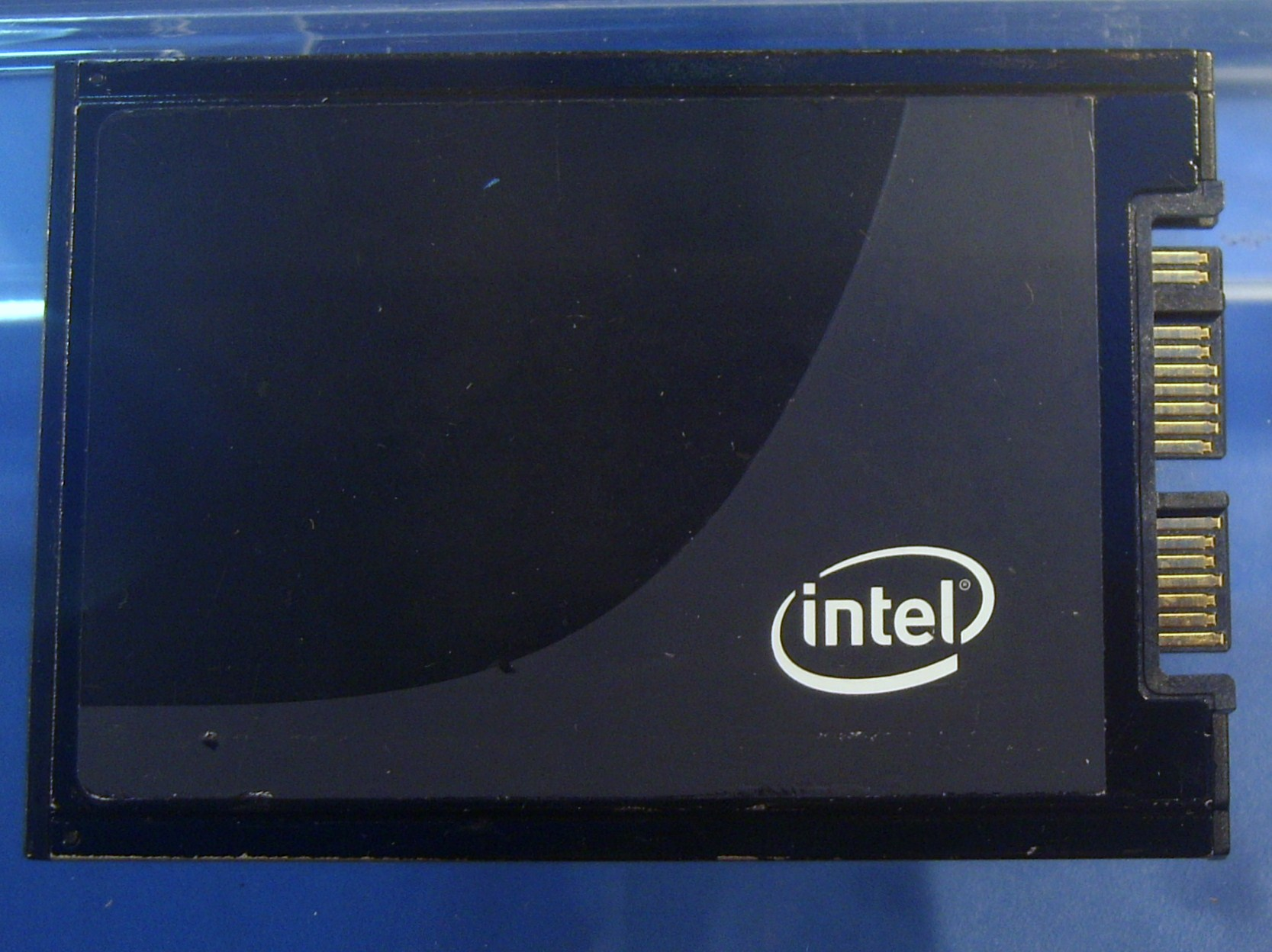 2008 Intel Developer Forum Taiwan: A prototype of Intel SSD.